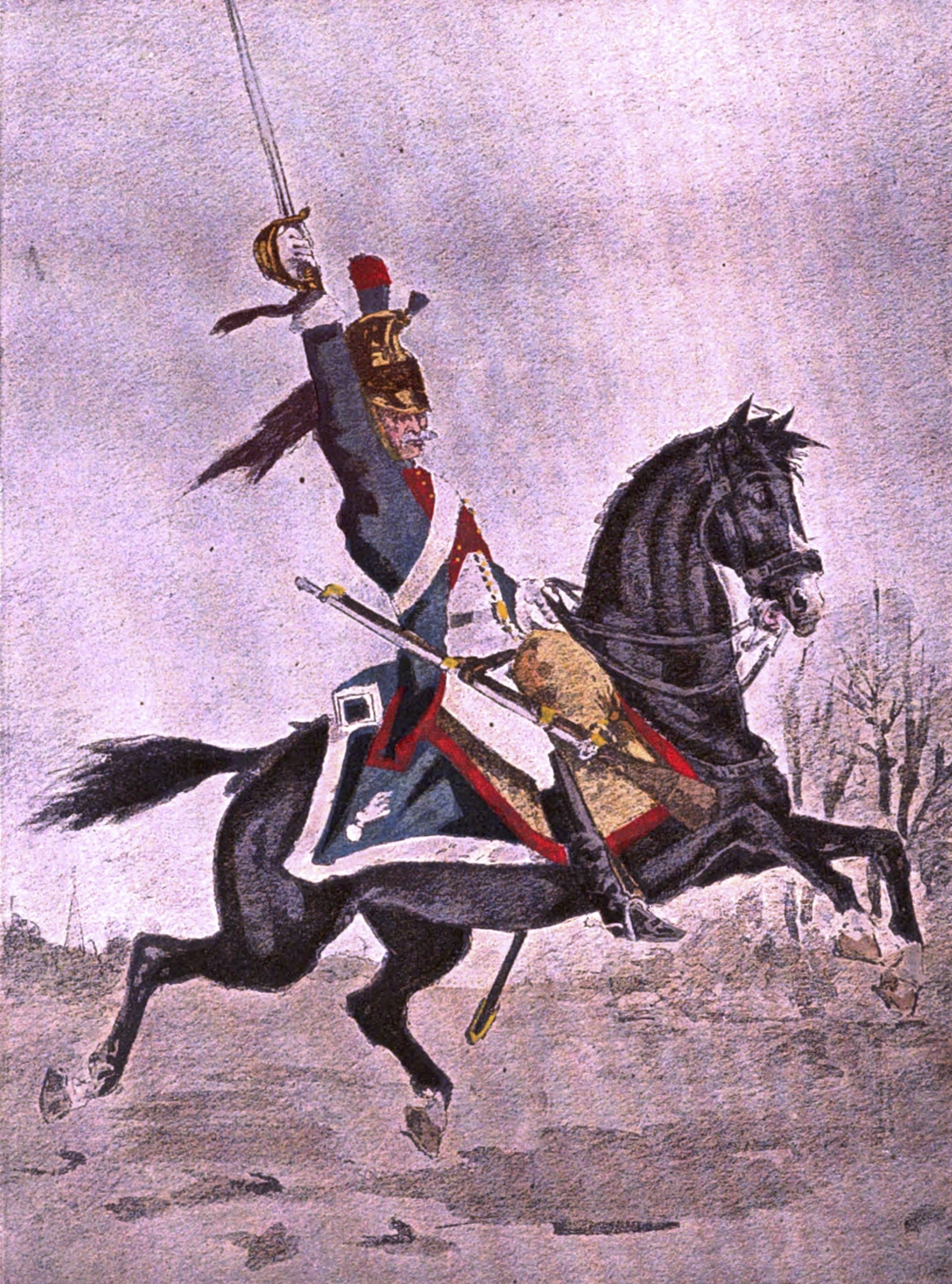 A dragoon of the 2e Régiment de Dragons, in the uniform of the Republic and Empire from 1791–1815